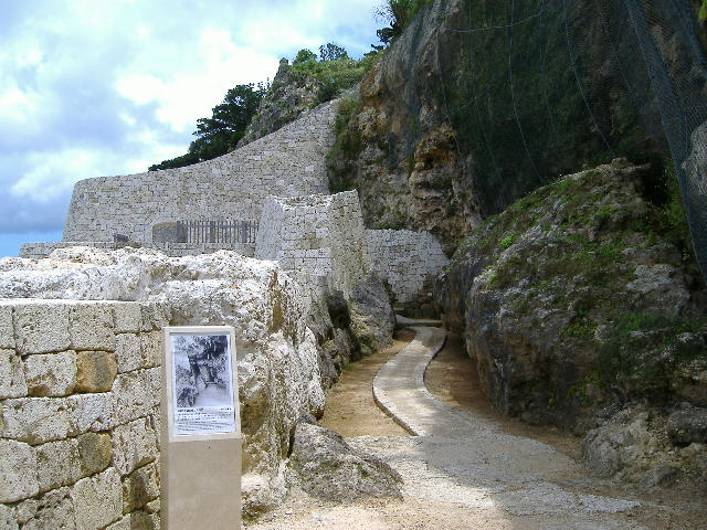 Urasoe Yodore(Royal mausoleum of the Ryukyu Kingdom)